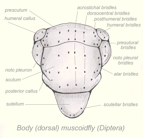 The top (dorsal) of the body-segment of a Diptera (insect)